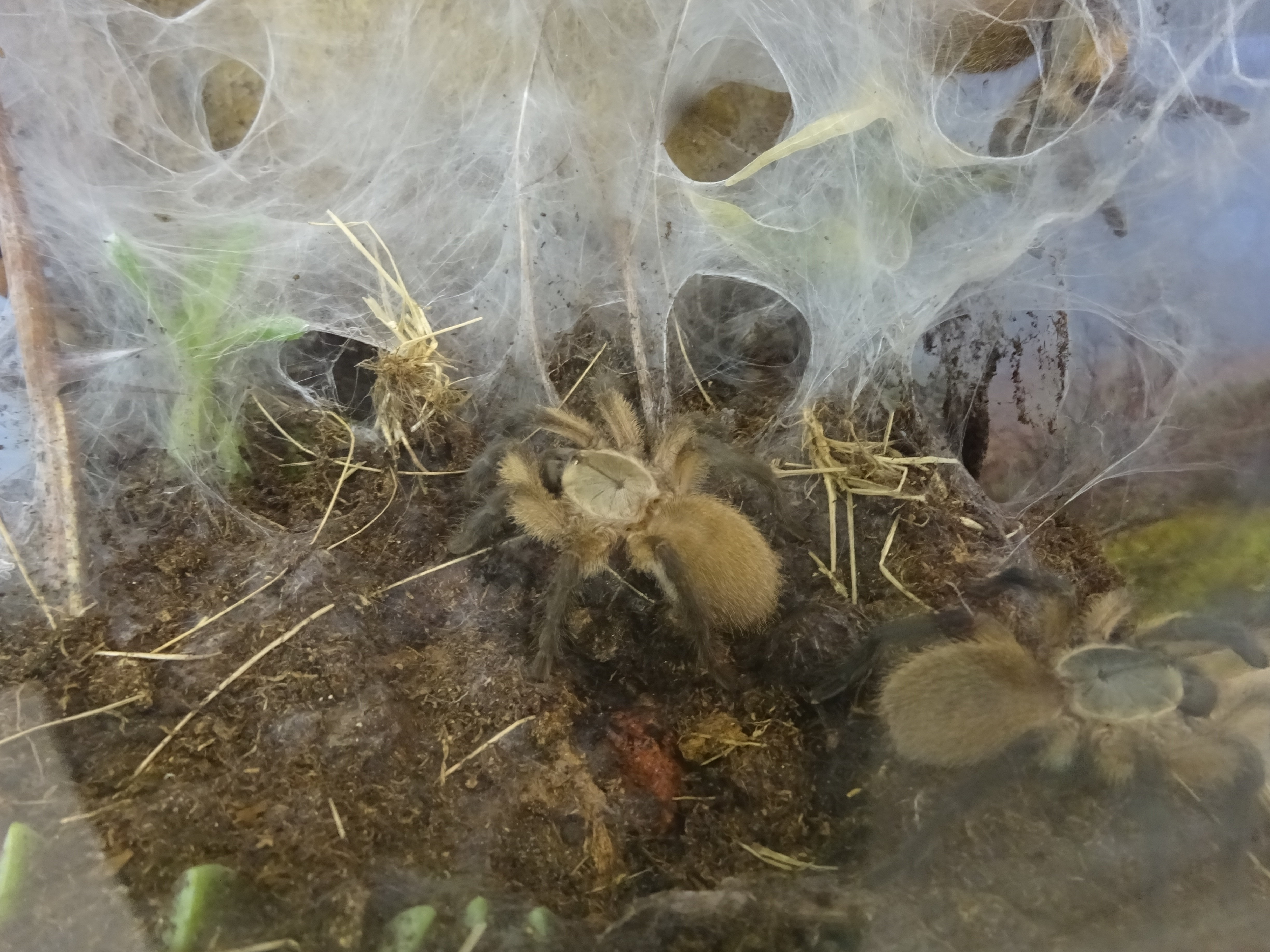 Monocentropus balfouri, Prague zoo